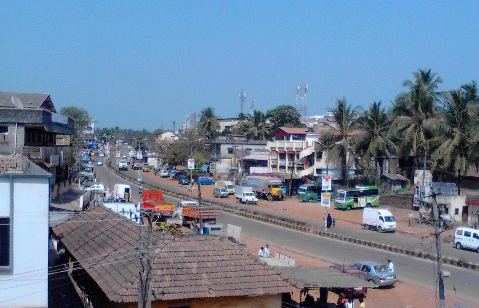 JPEG file from Reconect mobile phone.